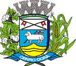 Coats of arms of the Brazilian municipality of Cerro Corá, Rio Grande do Norte.